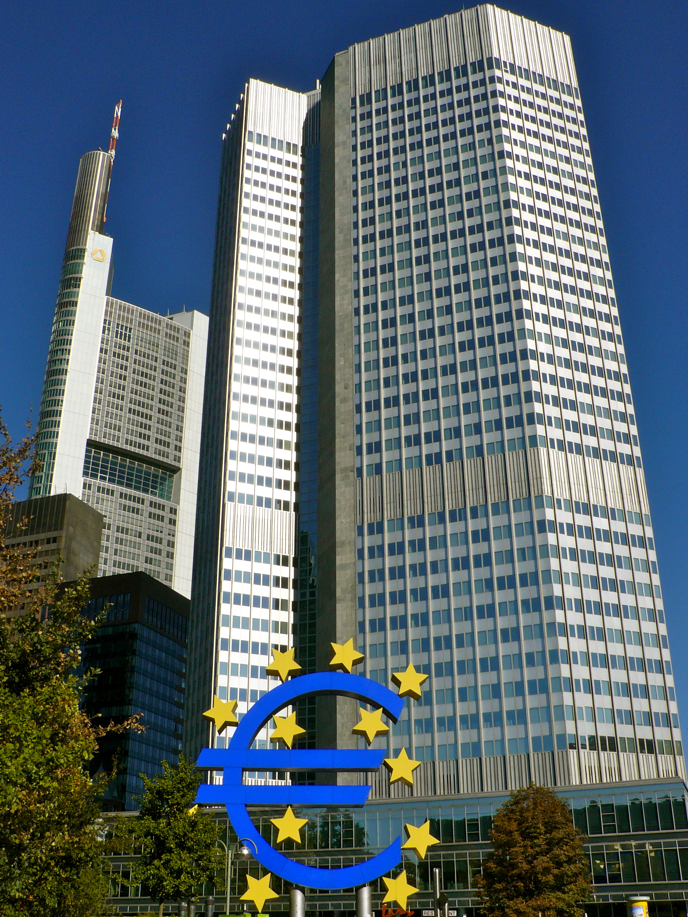 Euro sign at Gallusanlage with European Central Bank bldg in Frankfurt, Hesse, Germany